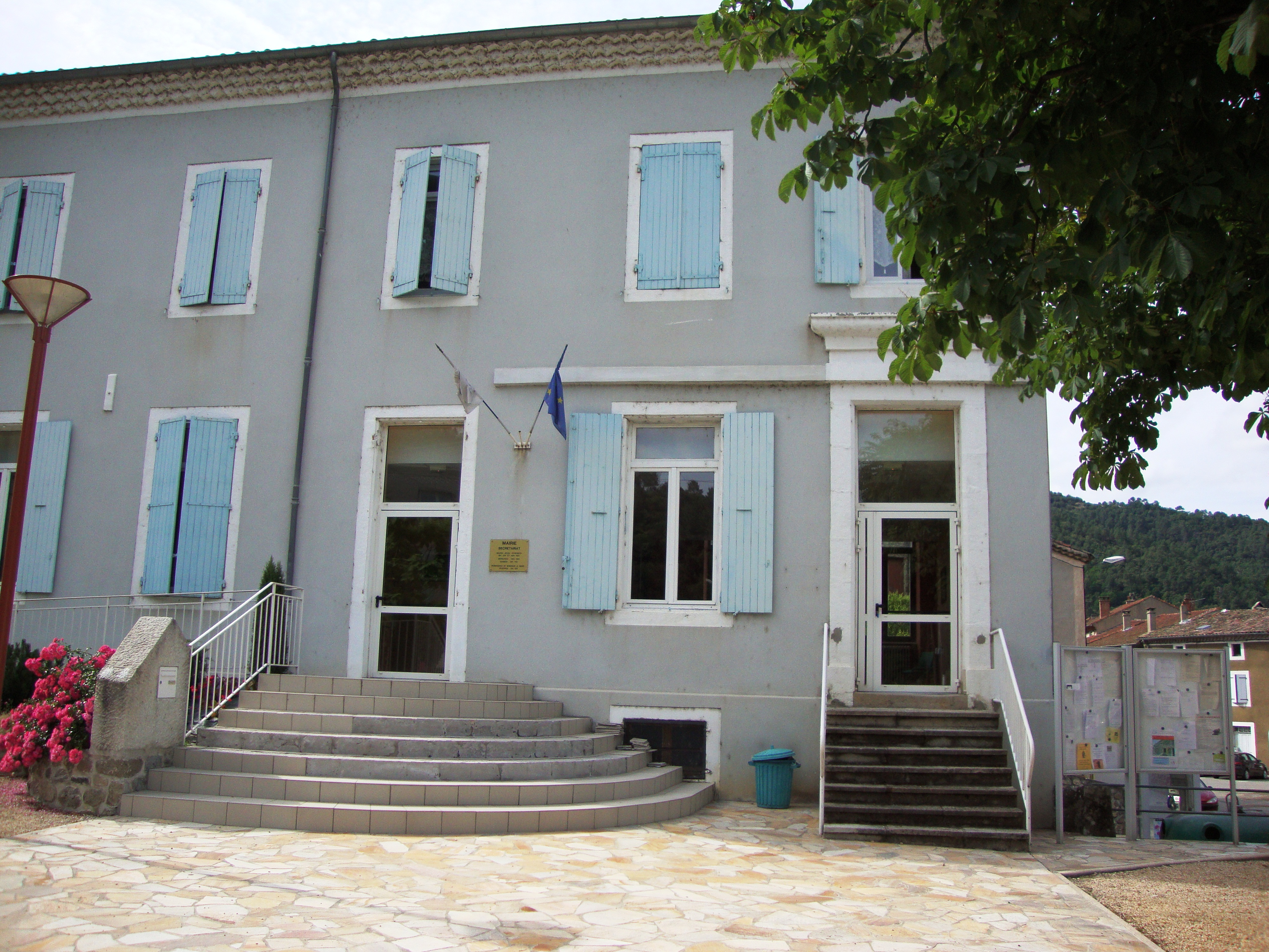 Les Ollières-sur-Eyrieux (Ardèche, Fr) town hall